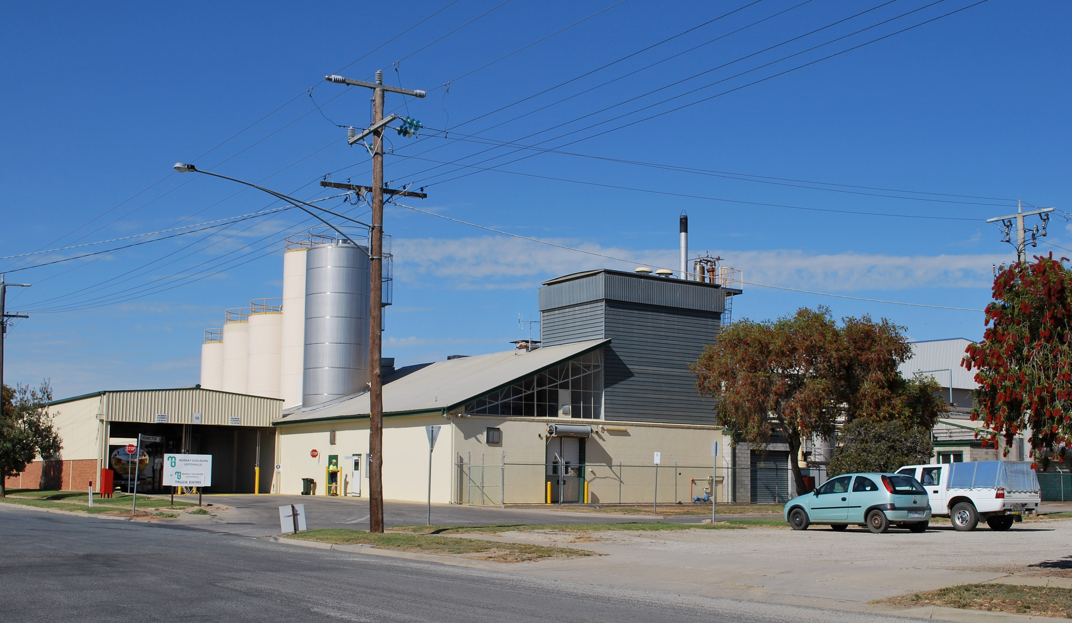 Murray-Goulburn factory at Leitchville, Victoria